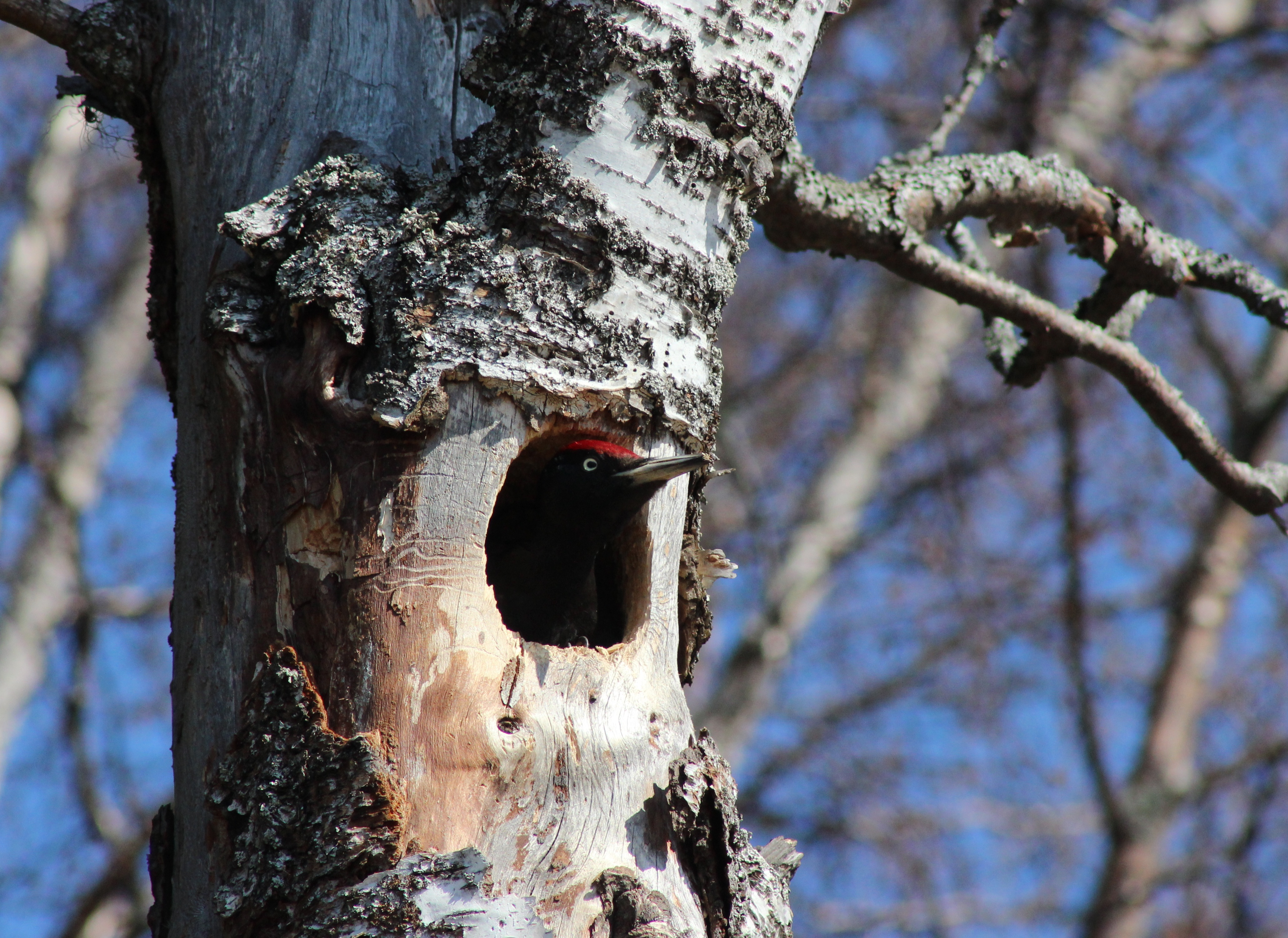 A Black Woodpecker (Dryocopus martius) in Haukipudas, Finland.